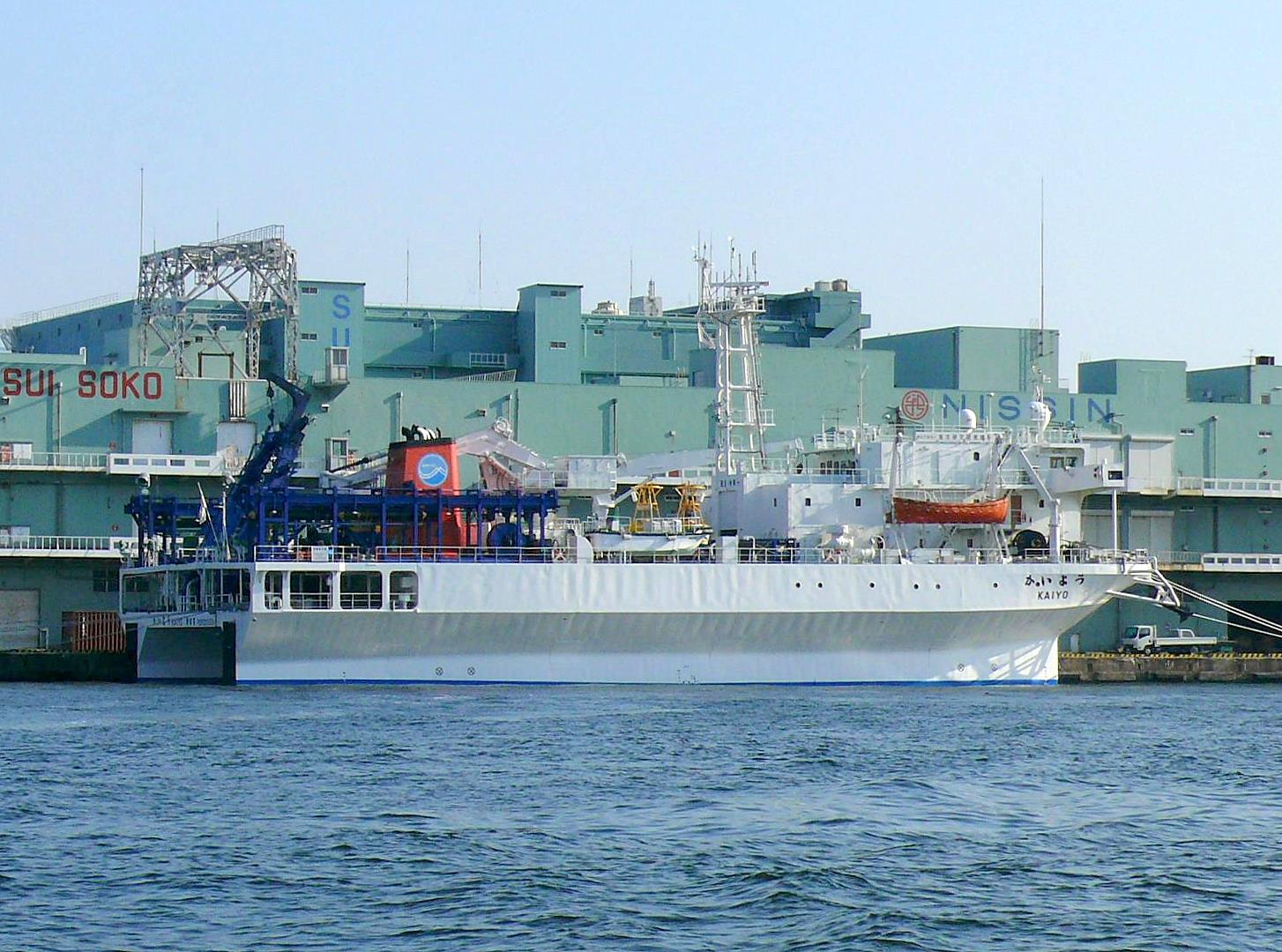 Kaiyo, Japan Agency for Marine-Earth Science and Tecnology Research Vessel (Japan).